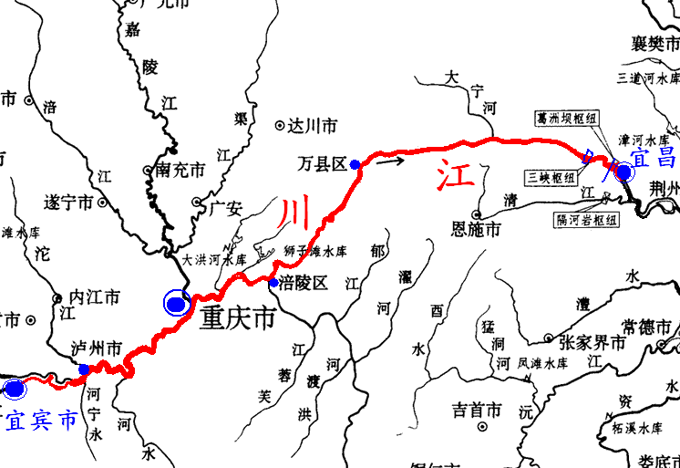 a part of Changjiang；长江主干流川江